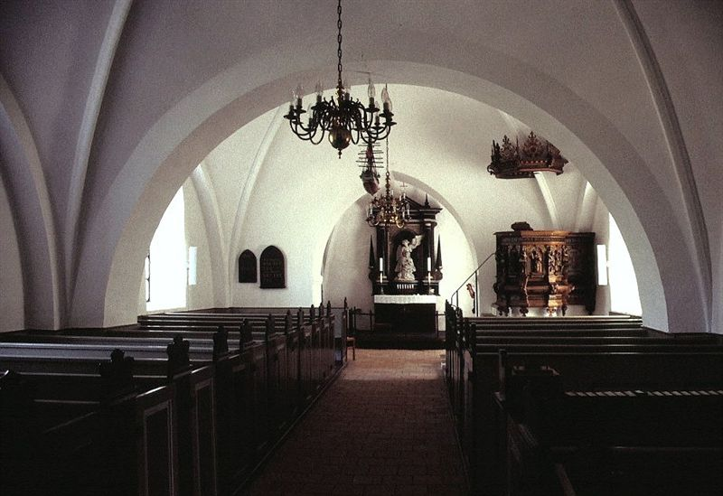 Aversi Kirke (church) in Næstved Kommune, mentioned first time in 1370